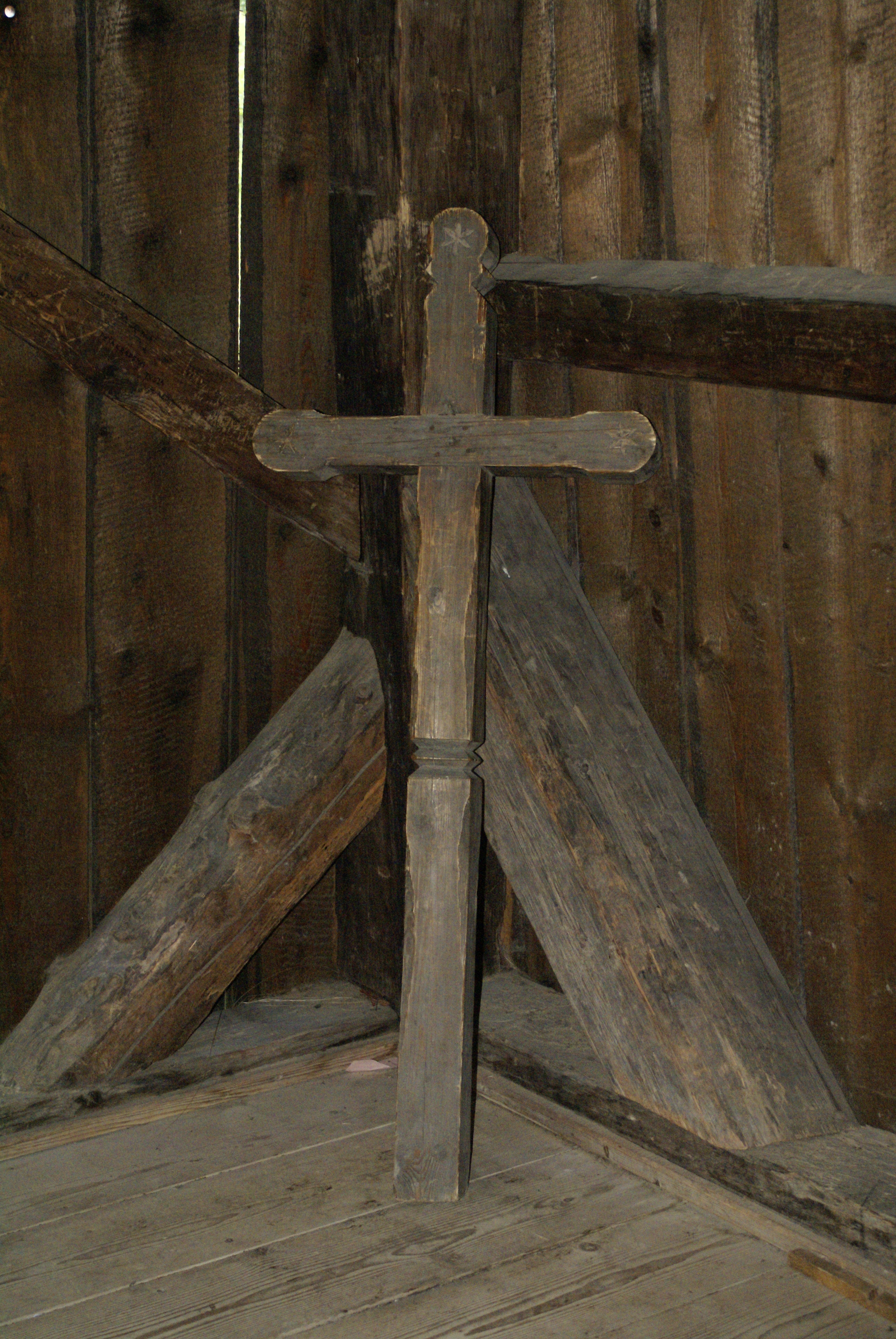 Open air museum of typical slovakian old Orava village, Zuberec, West Tatras, Slovak Republic